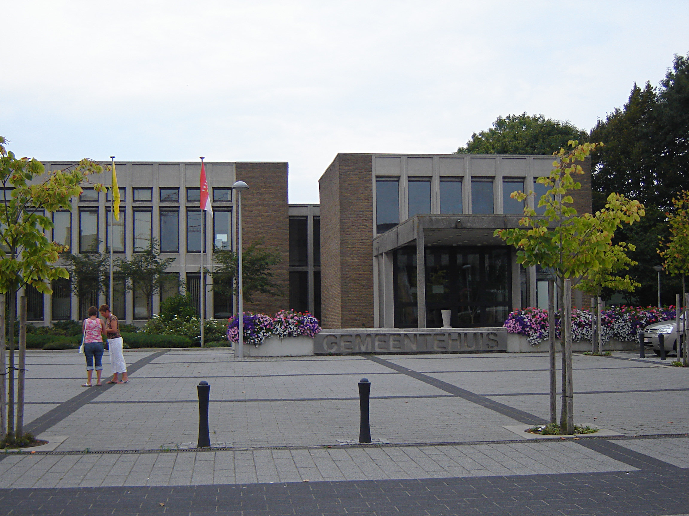 Town hall of De Pinte. De Pinte, East Flanders, Belgium